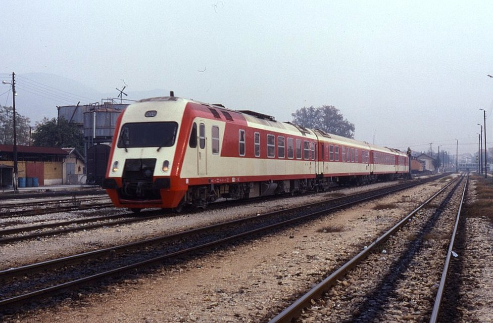 Formerly class 601, these 4-car air-conditioned DMU sets were built for mainline express services in Greece being introduced in 1989. 12 sets were built by AEG for the standard gauge lines and in the following years further sets were ordered in for both standard and narrow gauge lines. Seen on 5 November 1992, sets nos. 621 and 622 are seen on a service heading towards Thessaloniki.